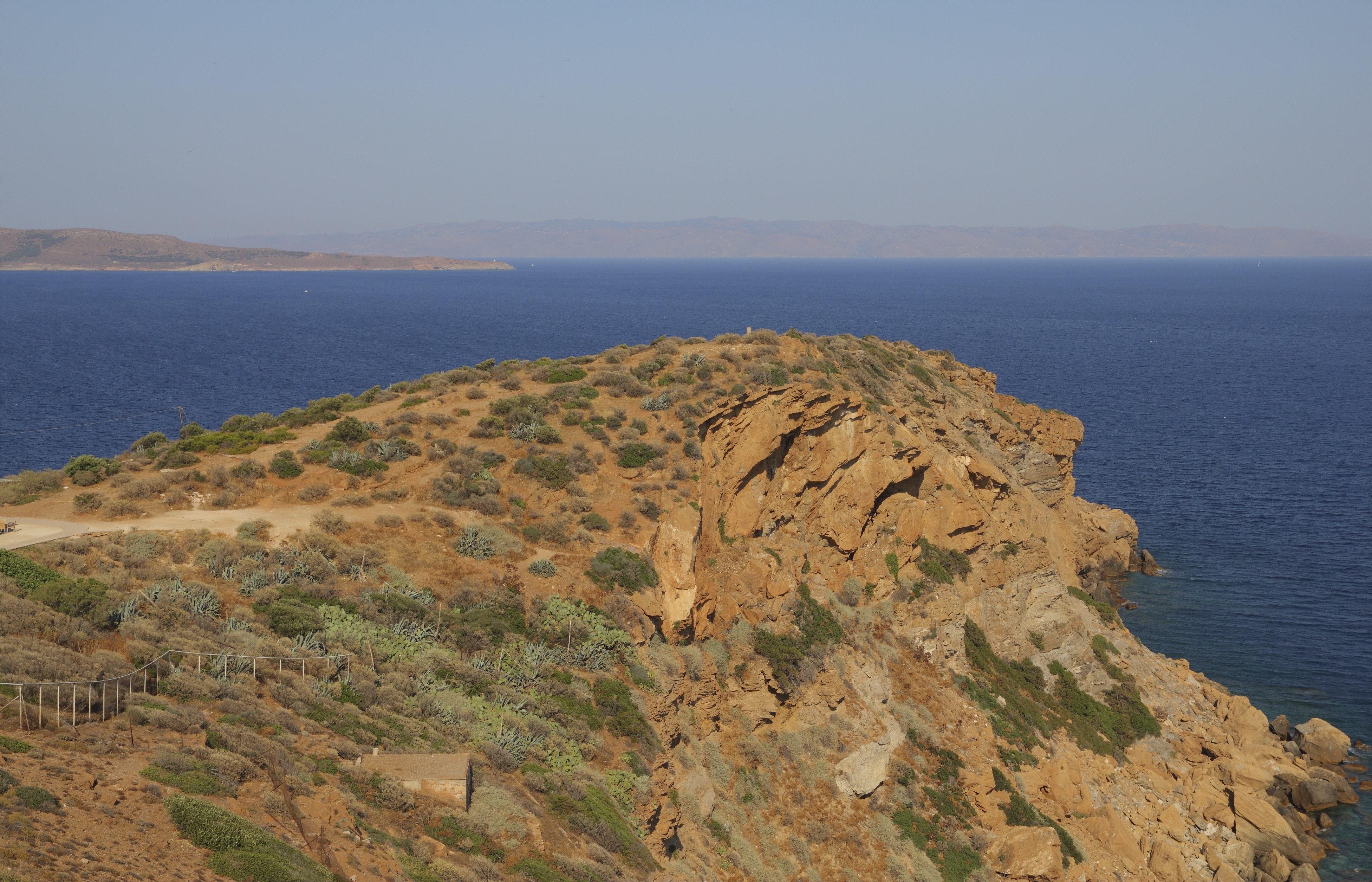 Cape Sounion (Attica, Greece) – view from the Archaeological site